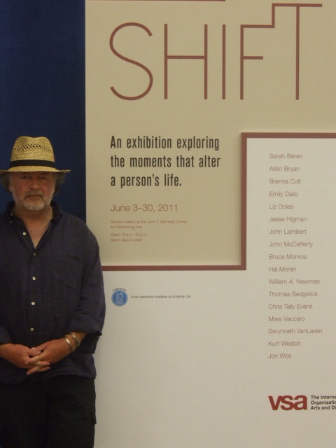 Chris Tally Evans at the opening of the Shift exhibition at the John F Kennedy Centre for the Performing Arts, Washington DC, USA